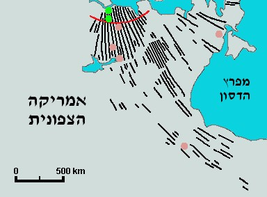 Map of the Mackenzie dike swarm